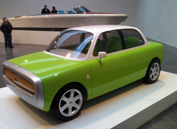 Marc Newson's 1999 Ford 021C concept car, at the Gagosian gallery in NYC in 2011. Mobile phone photo thumbnail, as the original has been lost somewhere in my computer.